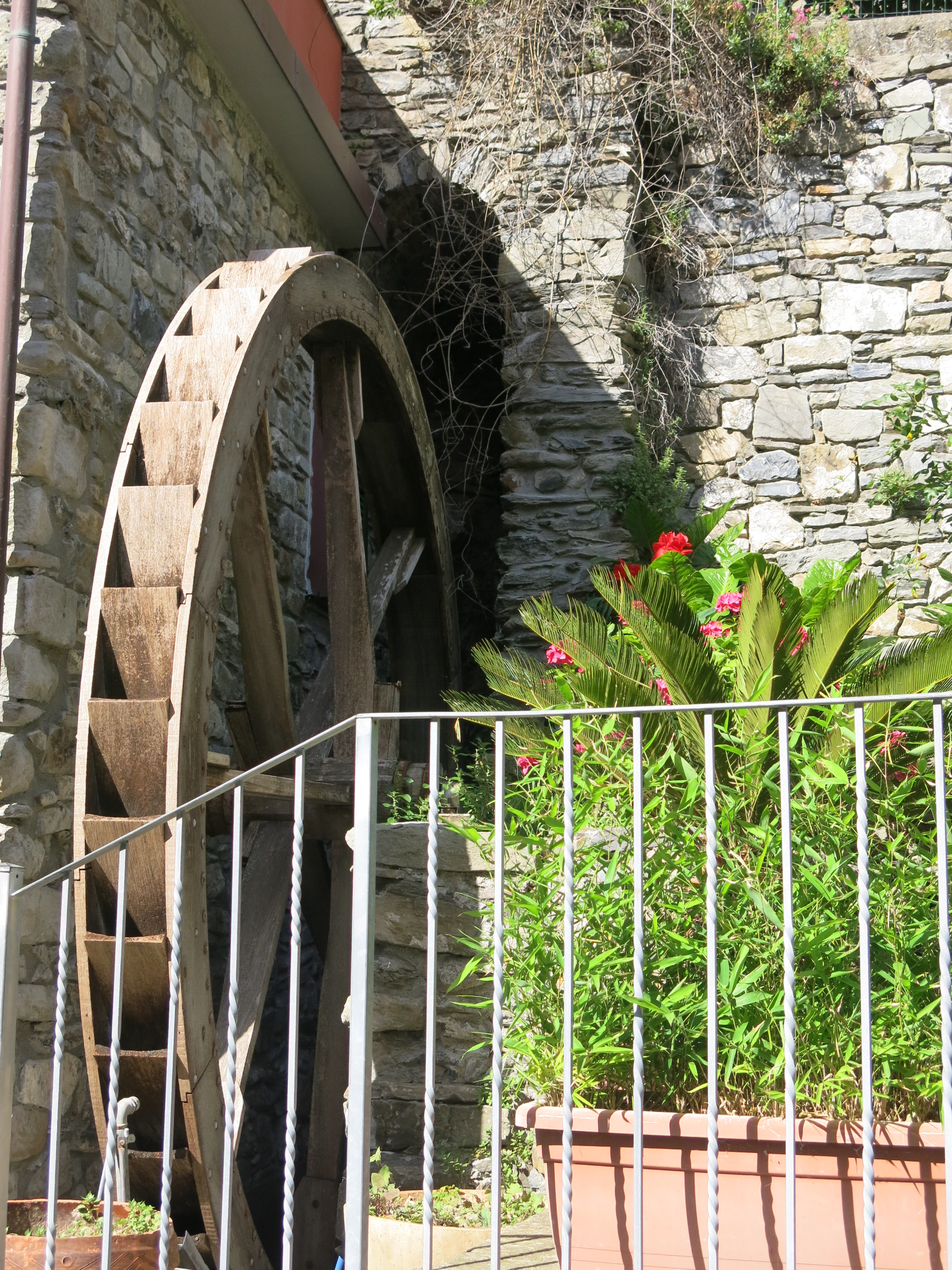 Watermill wheel in Manarola (Liguria, Italy). It is perhaps at the origine of the name of the village (Magna Rota=Large wheel).